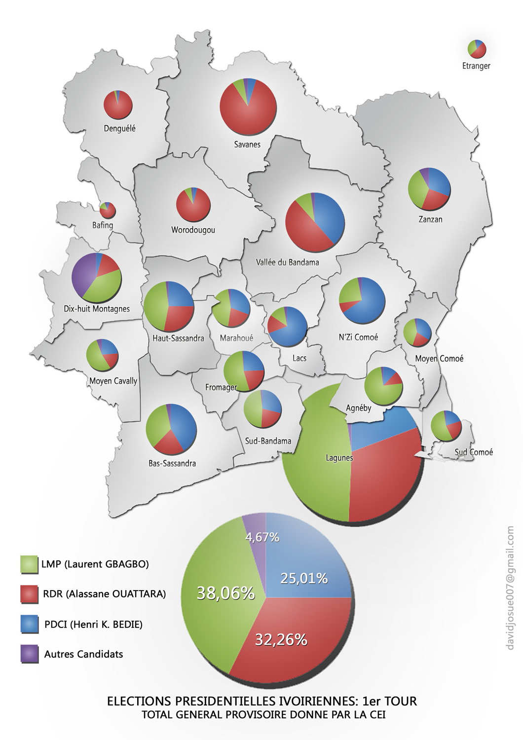 Results of Ivorian presidential elections (2010) in each region of Cote d´Ivoire